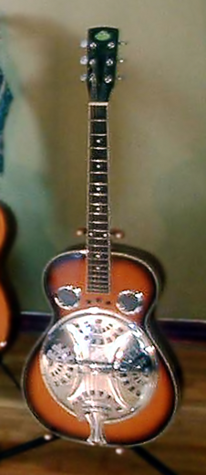 Regal resonator guitar John Pearse 720ML .013-.052 strings